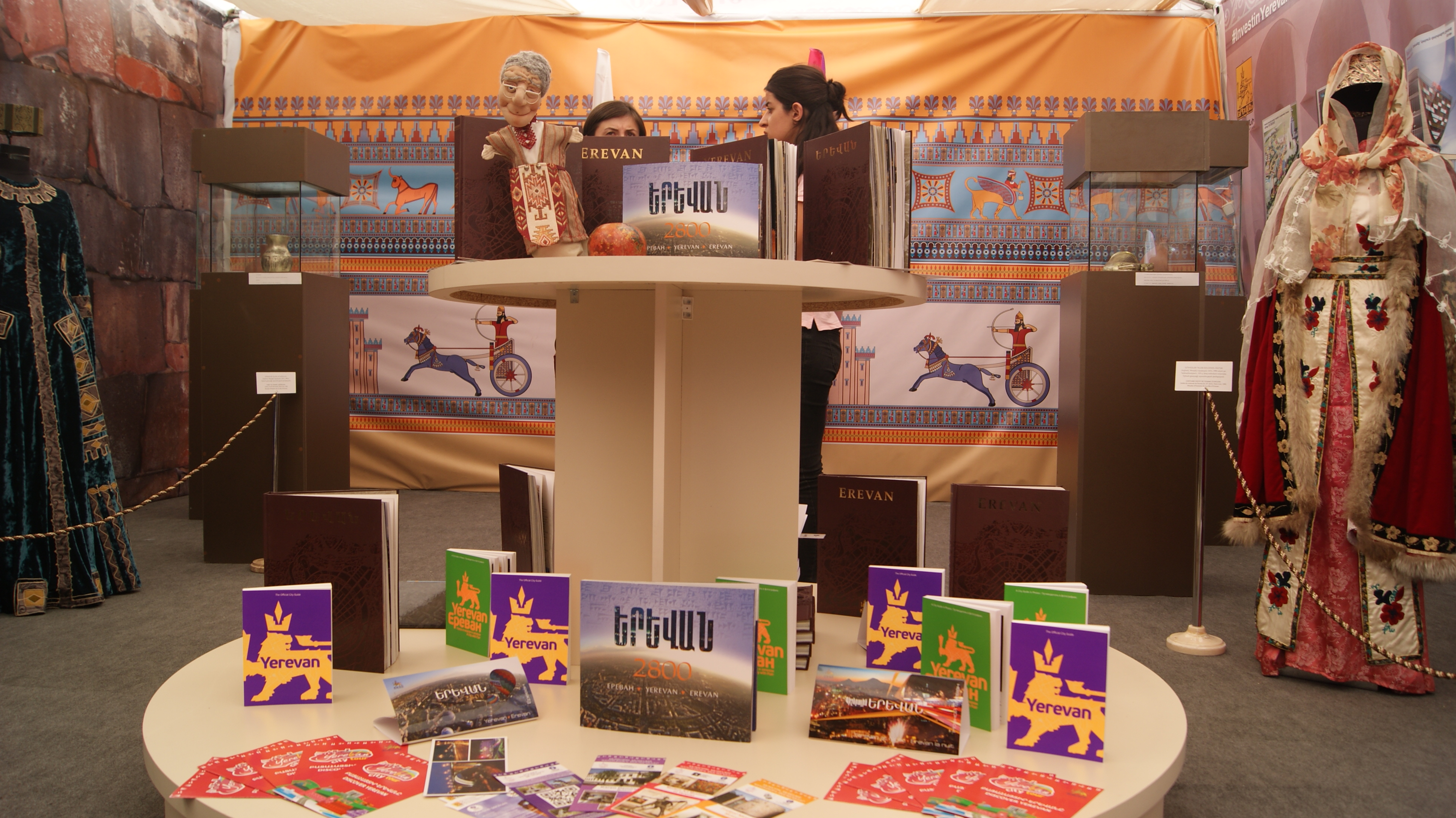 Village de la francophonie during Summit of La Francophonie 2018 held in Yerevan